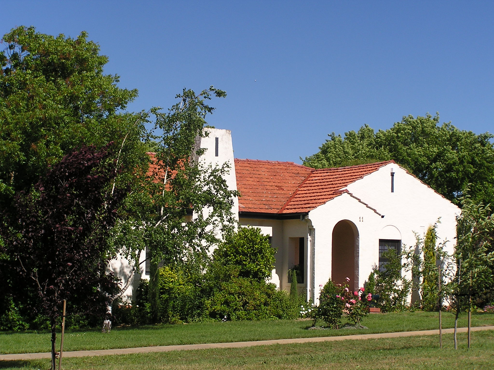 House at 11 La Perouse Street, Griffith, Canberra, Australian Capital Territory. The house was built in the 1920s and illustrates the architectural style of the Federal Capital Commission.